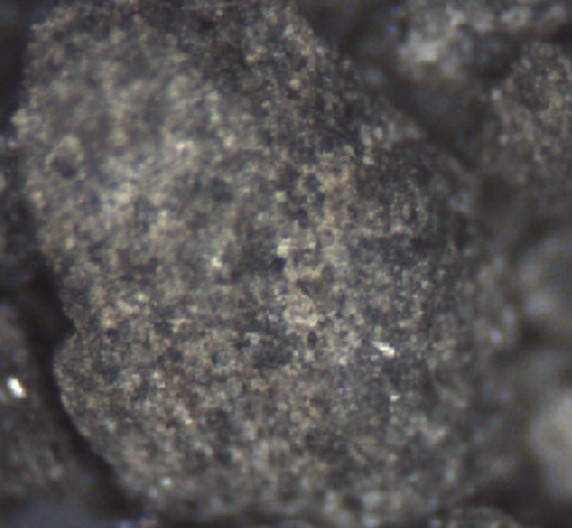 Muskiki Shale seen through microscope